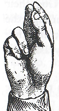 To symbolize the trinity, the first three finger are brought to a point and, to symbolize the two natures of Jesus Christ, the remaining two fingers are pressed close together in the palm.